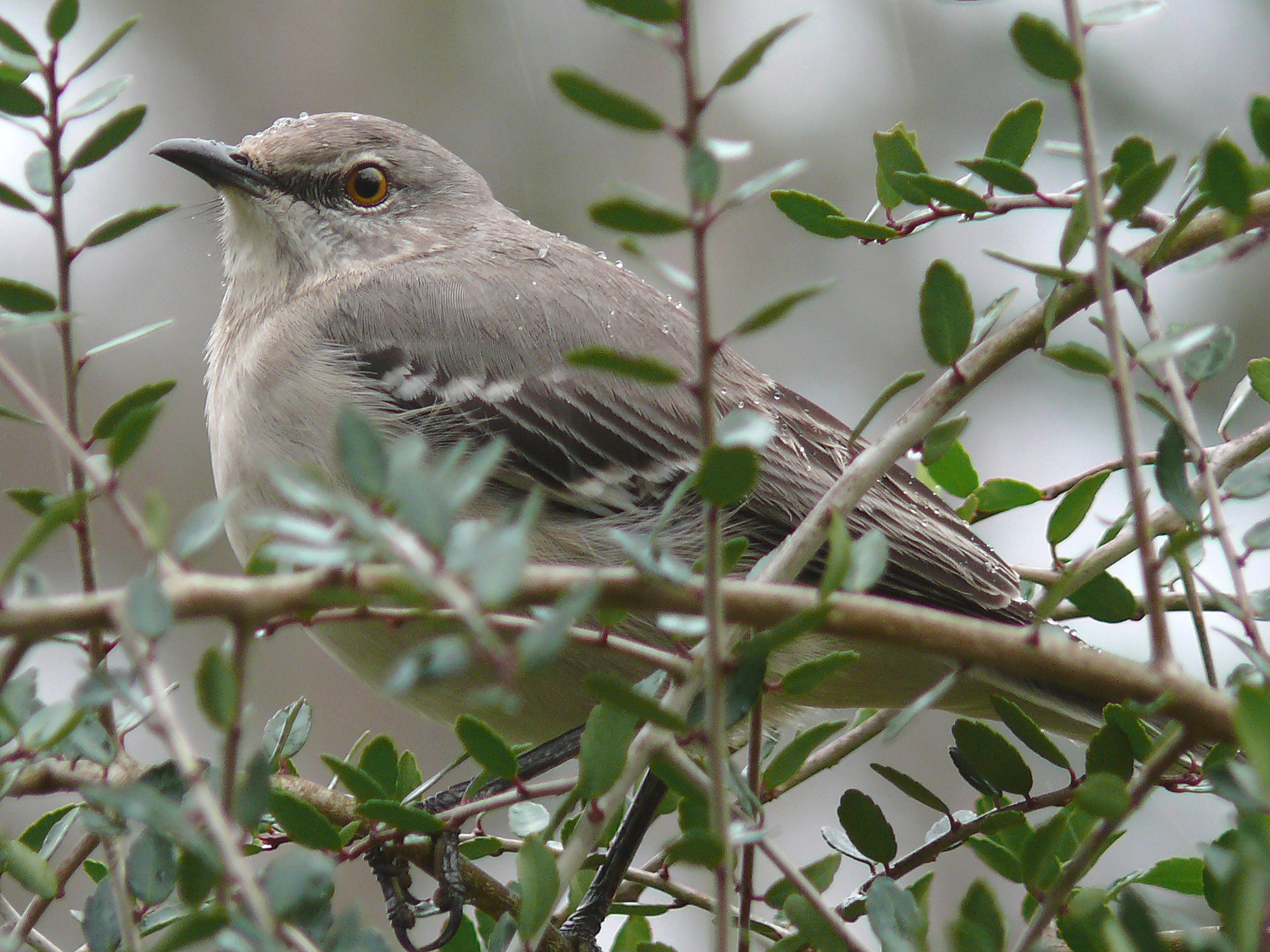 A Northern Mockingbird (Mimus polyglottos) taking shelter from the rain in a Weeping Holly tree. Photo taken with a Panasonic Lumix DMC-FZ50 in Johnston County, North Carolina, USA.